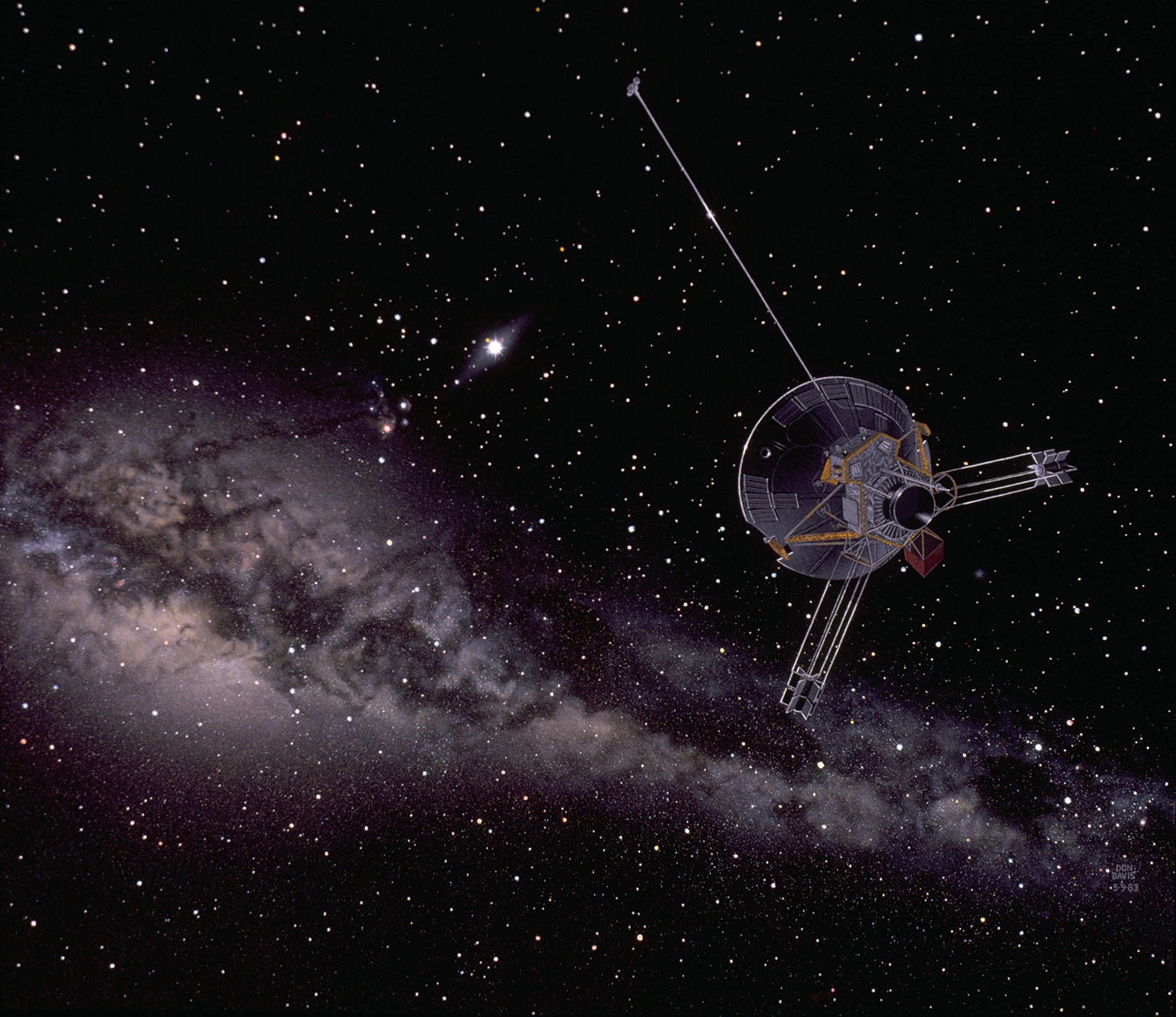 Artist's impression of the Pioneer 10 space probe (1972—) imaging the Sun from the orbit of Neptune. Artist's description: "On ABC's 'Nightline' I heard a report Pioneer 10 would try to image the Sun among the stars as it crossed the orbit of Neptune. This turned out to be not true, and I resolved to create such a view. The sky is accurately portrayed and the Sun with its brighter planets are placed where they would be in relation to the background. The spacecraft is based on hardware photographs. Acrylic on board for NASA Ames."